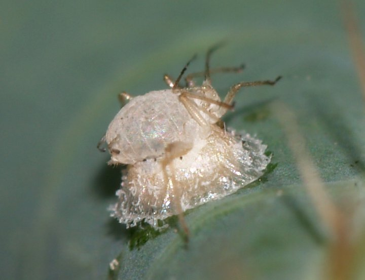 dead aphid, with visible cocoon of Praon parasitoid (Braconidae), from Cologne, Germany.